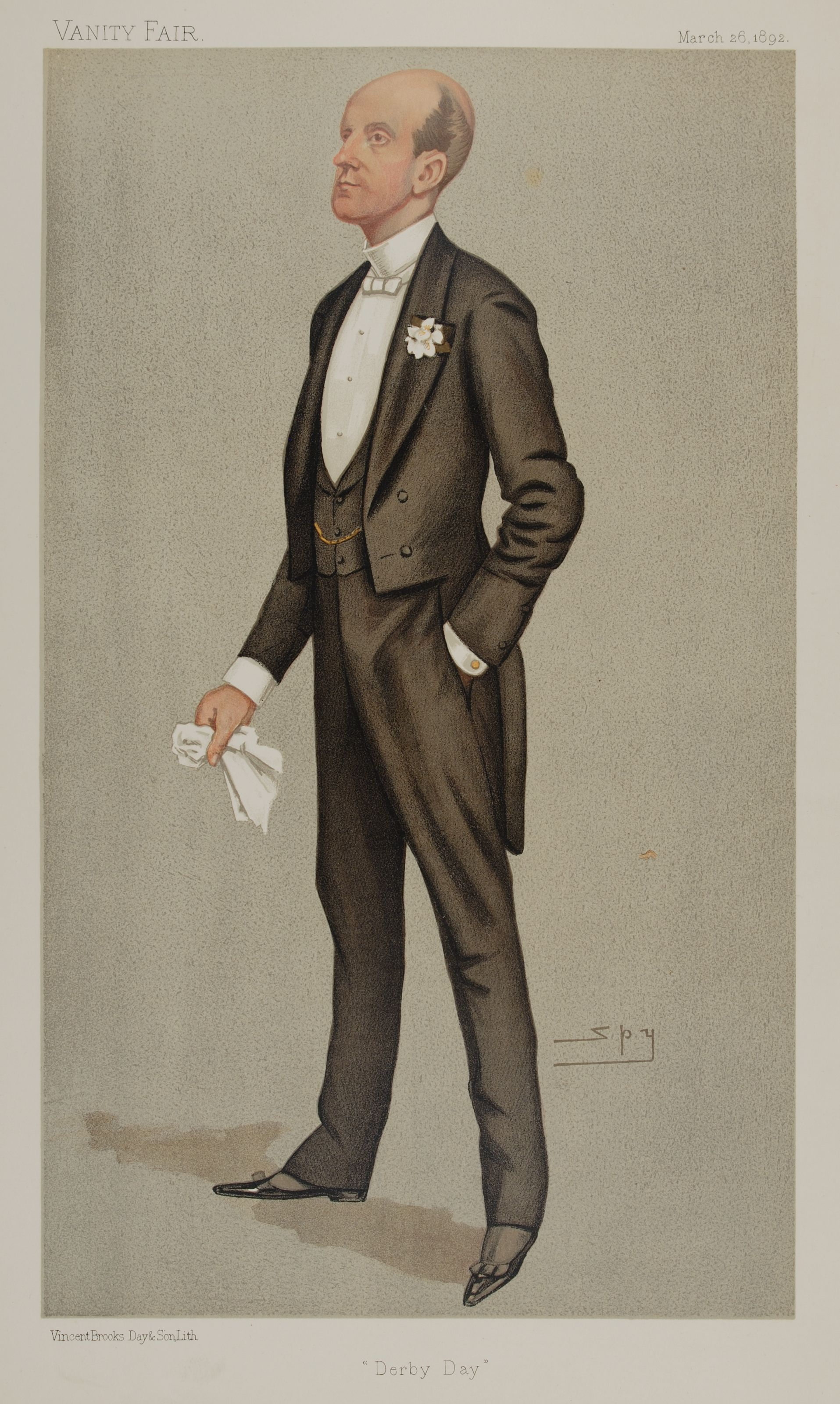 Statesmen No. 588: Caricature of Hugo Richard Charteris, 11th Earl of Wemyss and 7th Earl of March (1857-1937). Caption read "Derby Day".